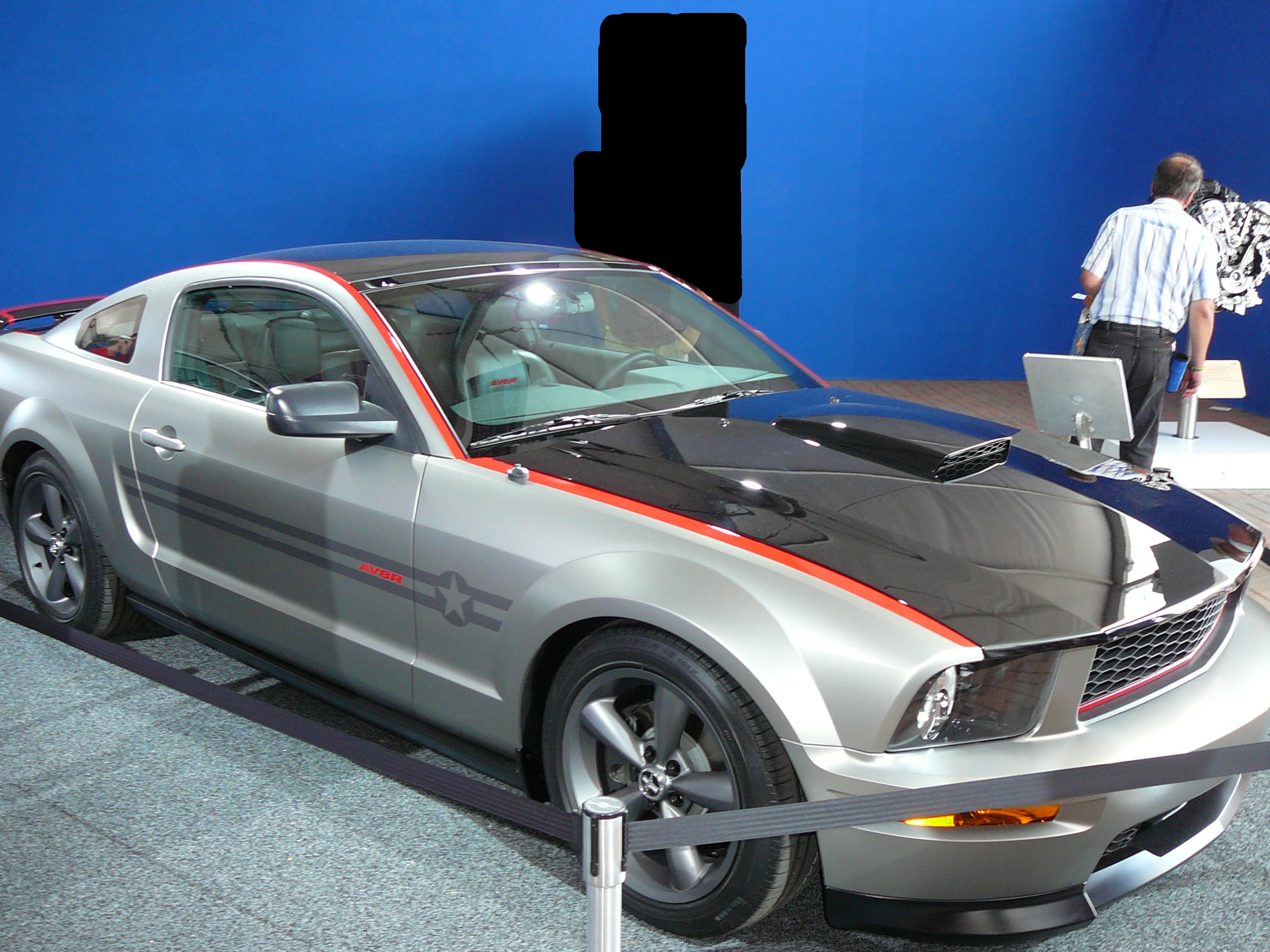 Ford Mustang AV8ER; picture was taken at the 2008 EAA Airventure Oshkosh Airshow.